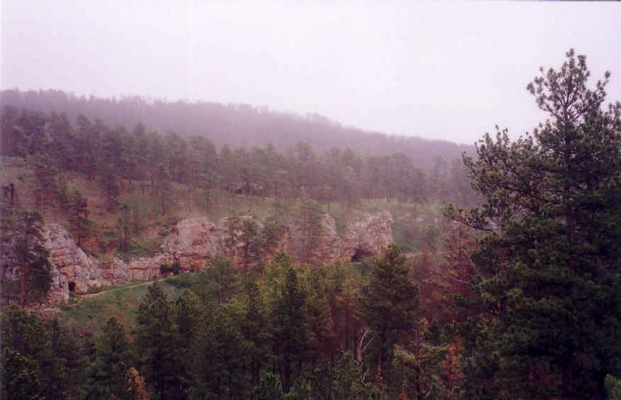 Entrance of Jewel Cave National Monument, South Dakota, USA with the actual entrance, the trail and the ranger cabin